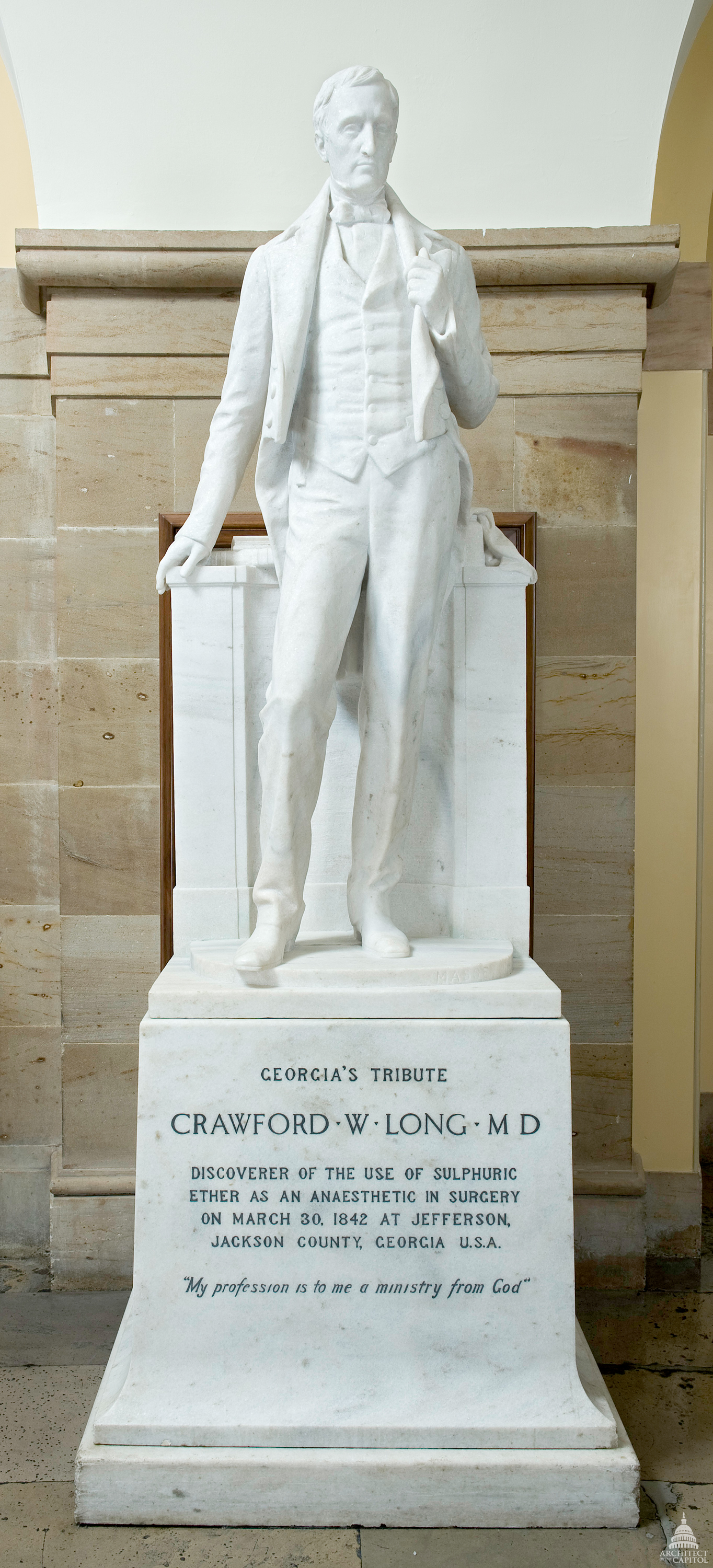 Crawford W. Long (1815-1878) Georgia Marble by J. Massey Rhind Given in 1926 Crypt U.S. Capitol This official Architect of the Capitol photograph is being made available for educational, scholarly, news or personal purposes (not advertising or any other commercial use). When any of these images is used the photographic credit line should read “Architect of the Capitol.” These images may not be used in any way that would imply endorsement by the Architect of the Capitol or the United States Congress of a product, service or point of view. For more information visit